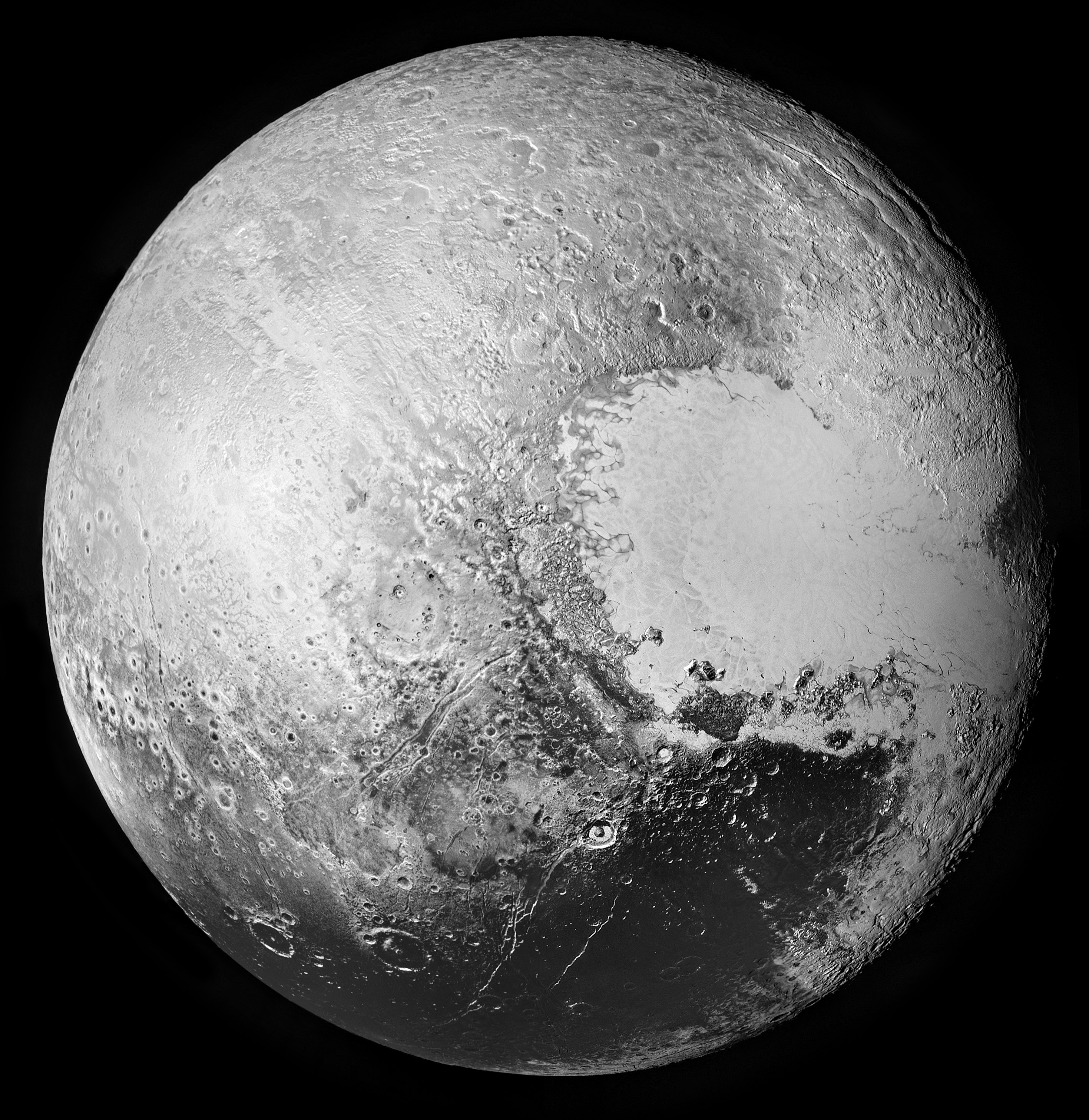 Pluto, as seen by New Horizons' LORRI imager between 2015-07-14 08:14:48 and 08:28:25 UTC. Merged by Hugin, touched-up with GIMP. Raw images via